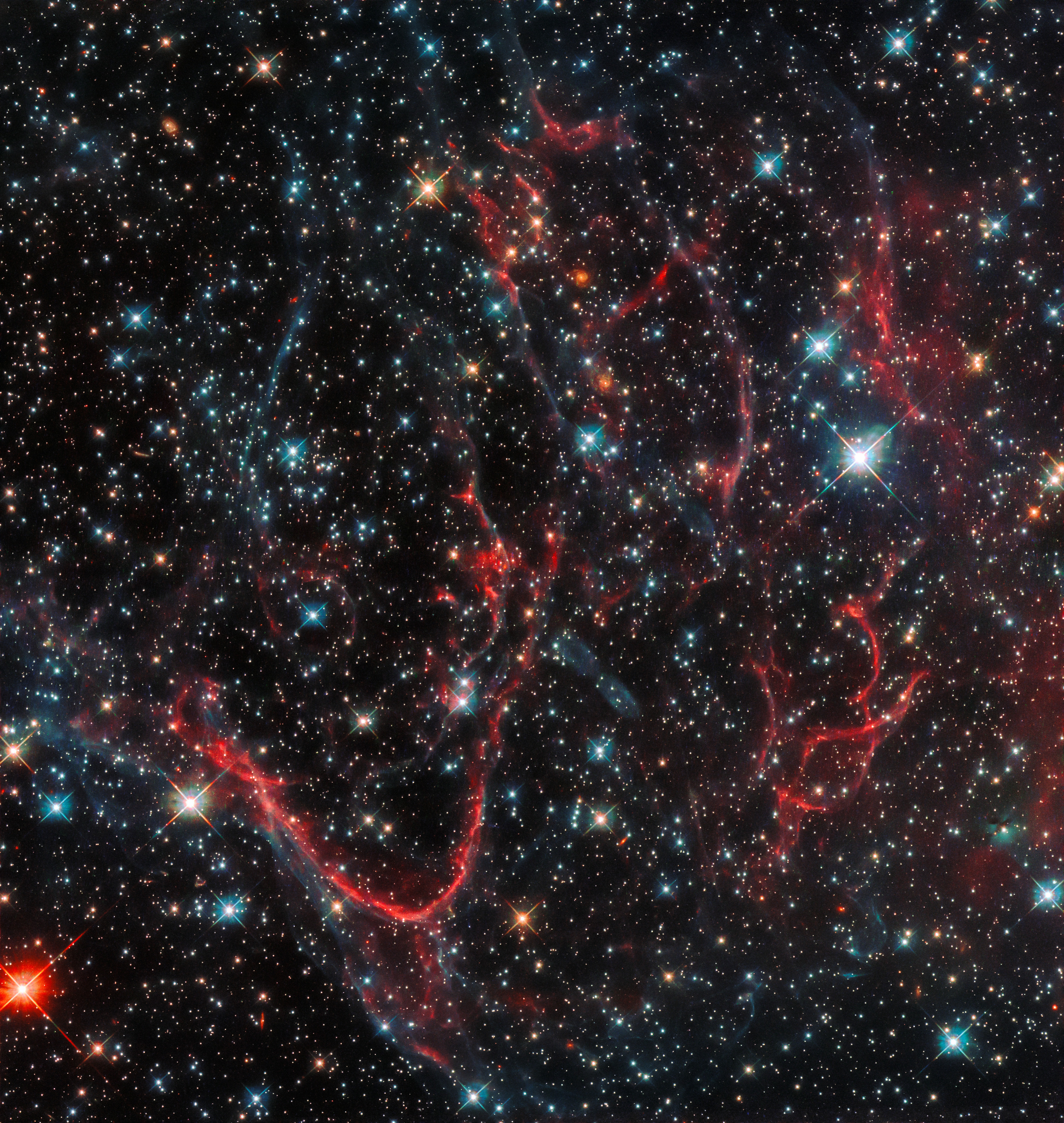 This dark, tangled web is an object named SNR 0454-67.2. It formed in a very violent fashion — it is a supernova remnant, created after a massive star ended its life in a cataclysmic explosion and threw its constituent material out into surrounding space. This created the messy formation we see in this NASA/ESA Hubble Space Telescope image, with threads of red snaking amidst dark, turbulent clouds. SNR 0454-67.2 is situated in the Large Magellanic Cloud, a dwarf spiral galaxy that lies close to the Milky Way. The remnant is likely the result of a Type Ia supernova explosion; this category of supernovae is formed from the death of a white dwarf star, which grows and grows by siphoning material from a stellar companion until it reaches a critical mass and then explodes. As they always form via a specific mechanism — when the white dwarf hits a particular mass — these explosions always have a well-known luminosity, and are thus used as markers (standard candles) for scientists to obtain and measure distances throughout the Universe.